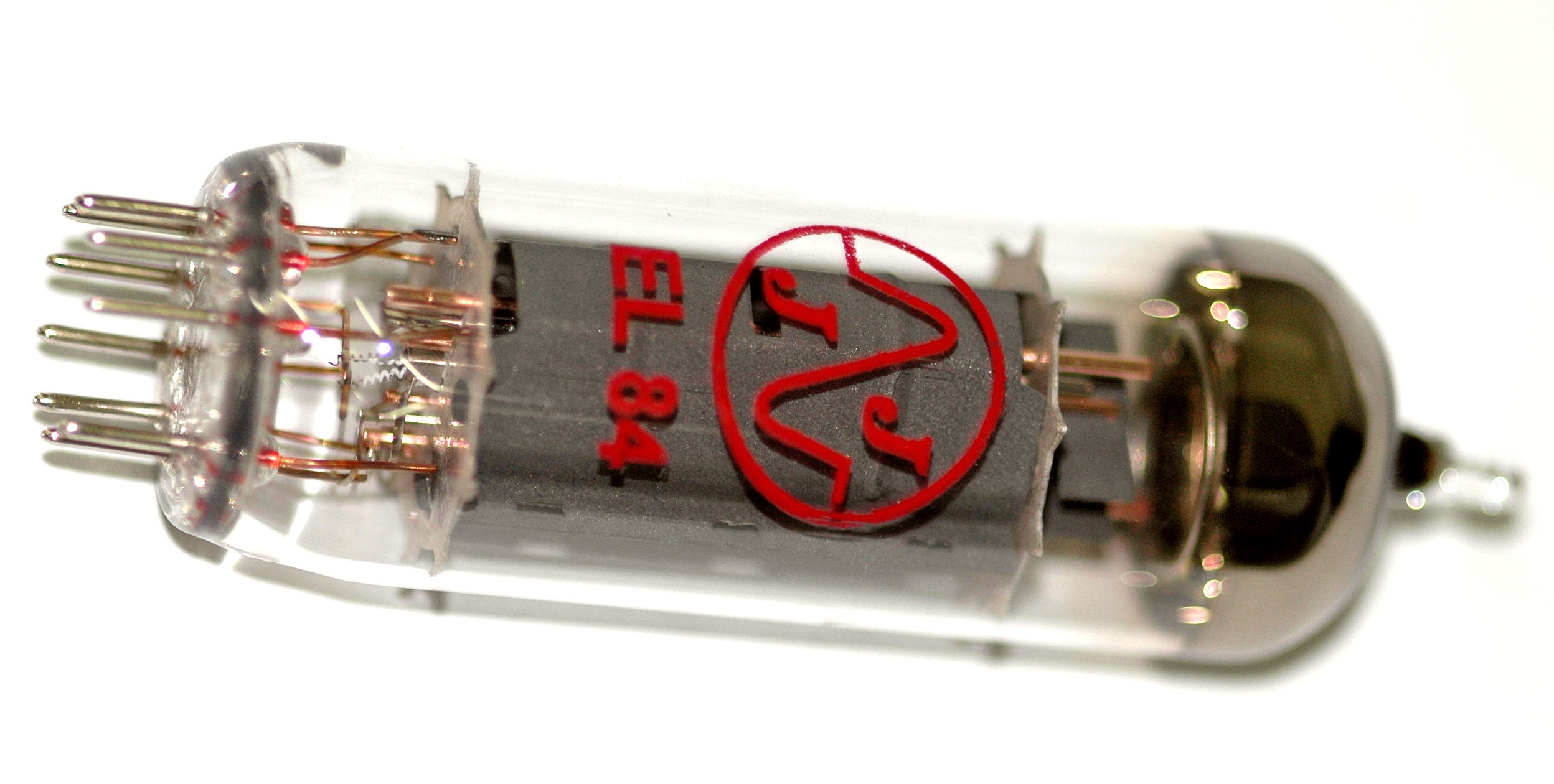 A JJ brand EL84 vacuum tube from current production in the JJ Electronic factory.